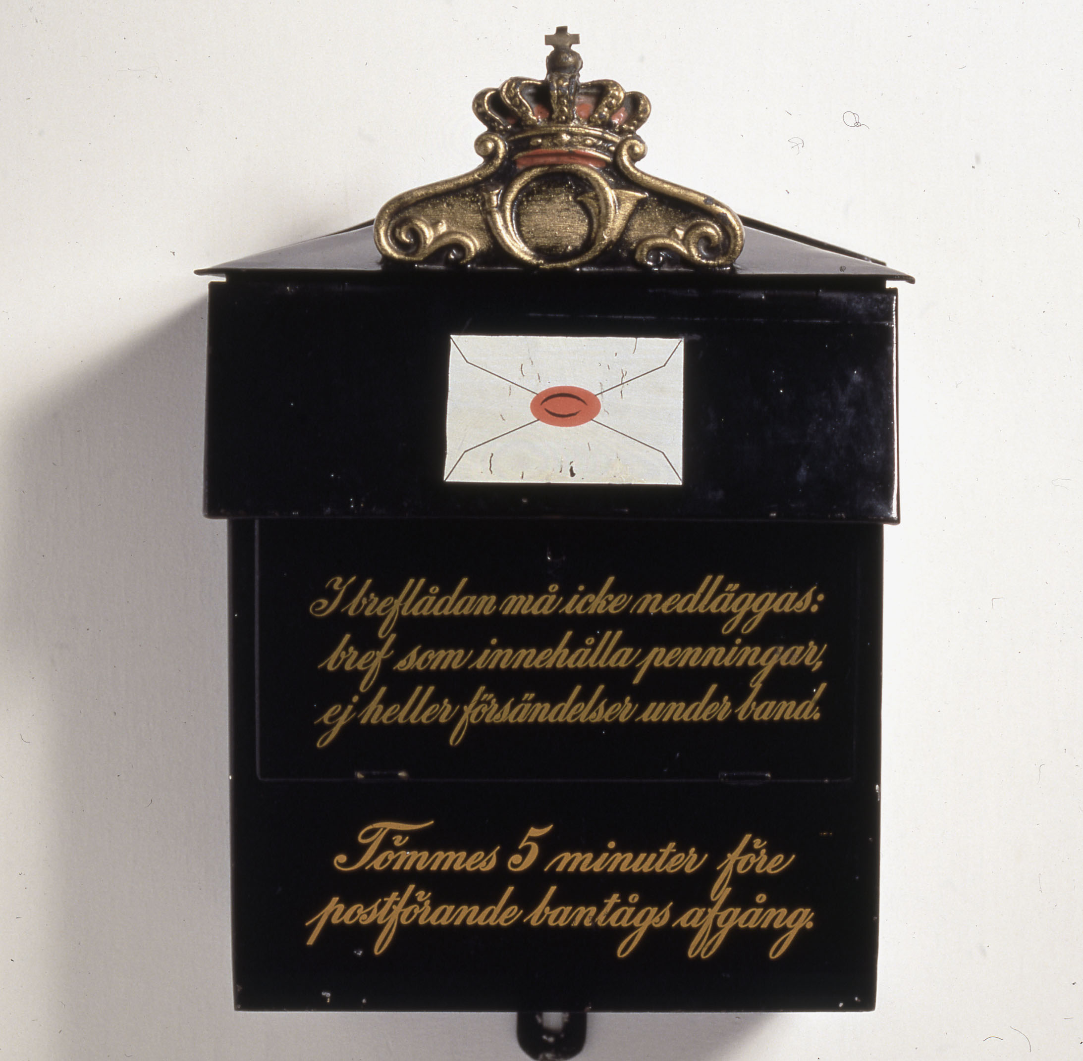 Swedish mailbox from 1871